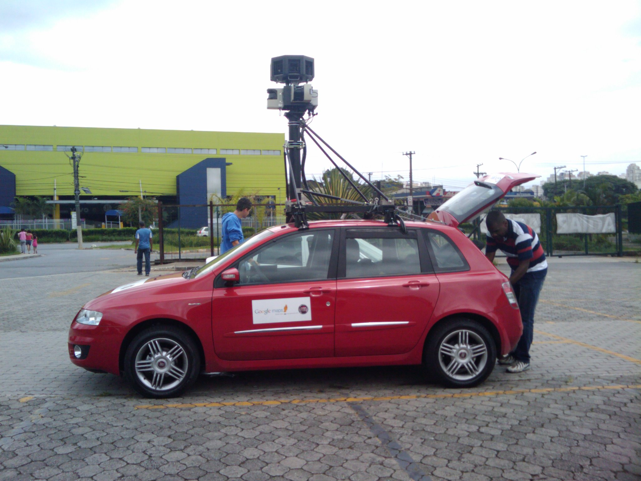 Google Street View Car (Fiat Stilo) in Villa-Lobos Park in São Paulo, Brazil.